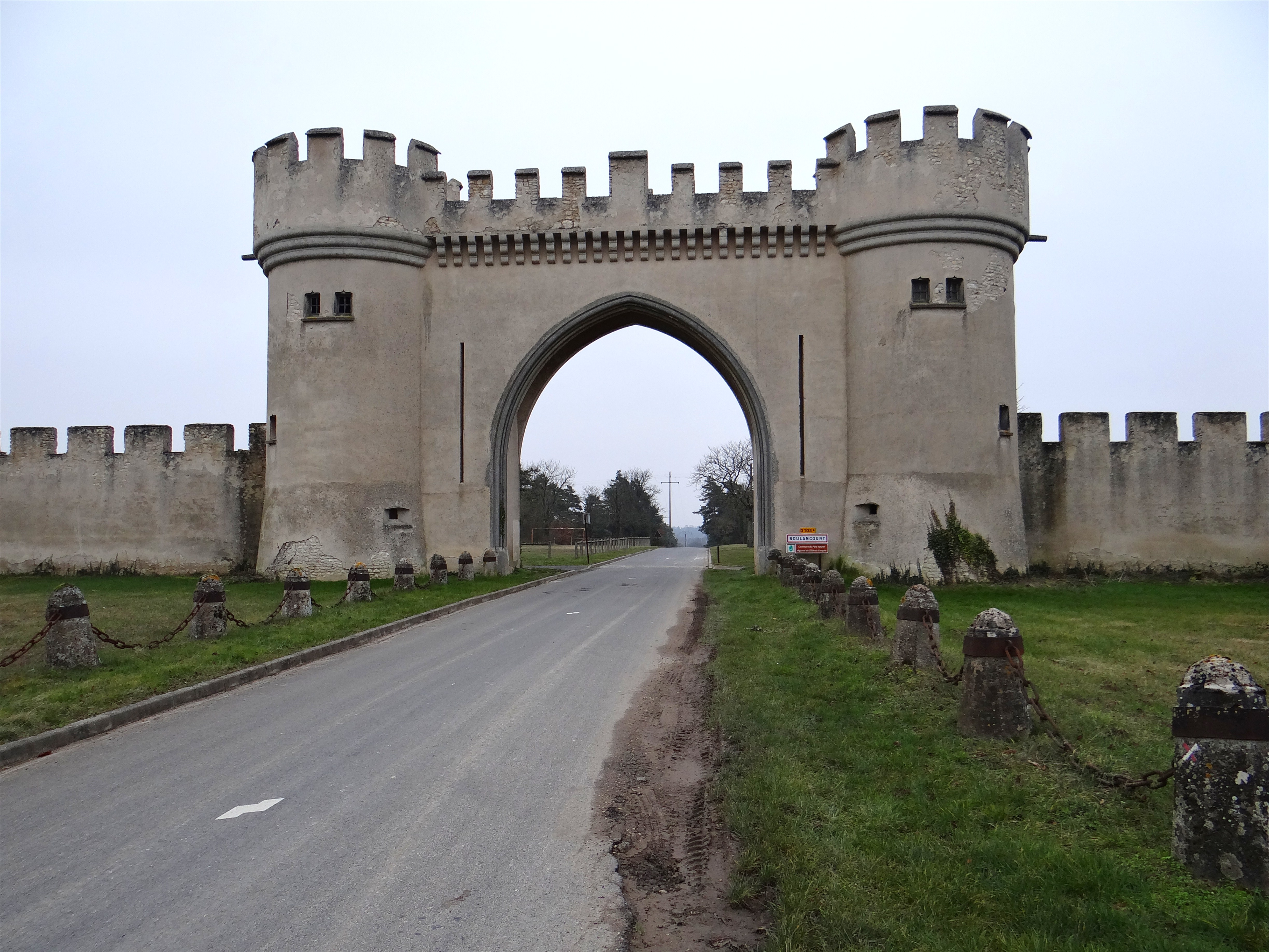 Tower Walk, Boulancourt, Seine-et-Marne, France